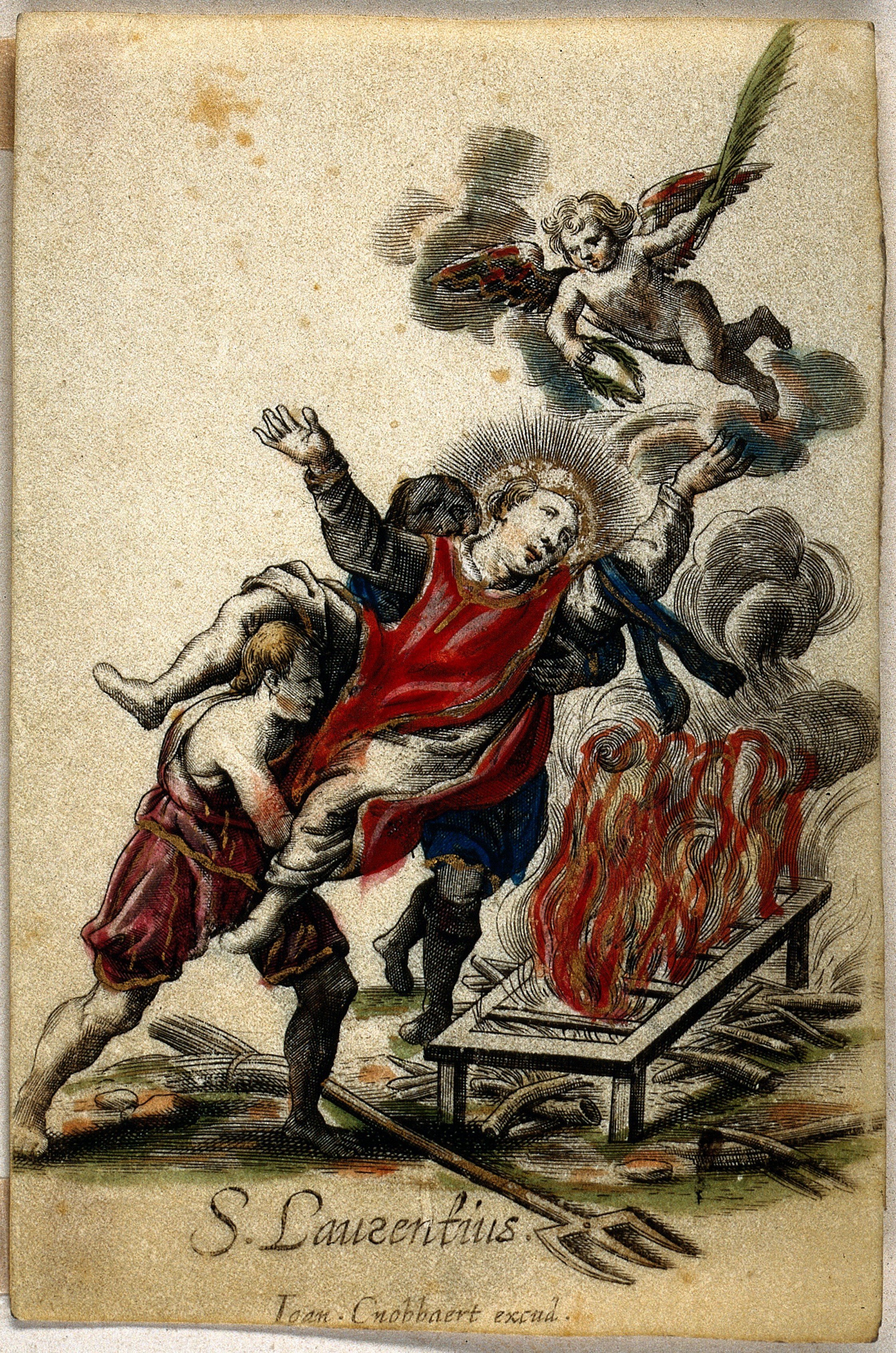 Martyrdom of Saint Laurence. Coloured etching on vellum by J. Cnobbaert. Iconographic Collections